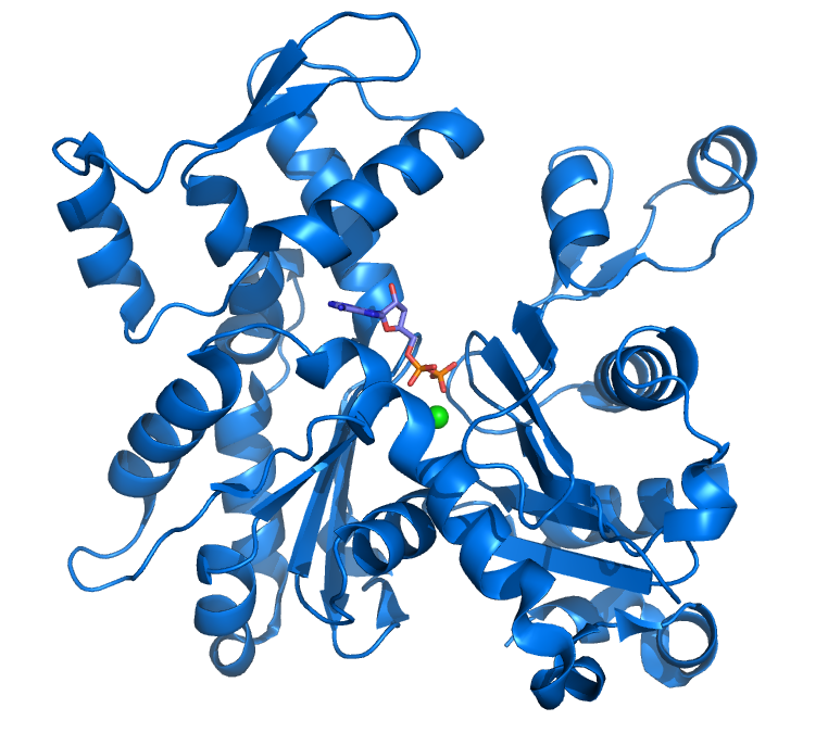 G-actin (PDB code 1j6z) in cartoon representation with ADP and the divalent cation highlighted. The picture has been rendered with PyMol (DeLano, W.L. The PyMOL Molecular Graphics System (2002) DeLano Scientific, San Carlos, CA, USA.)